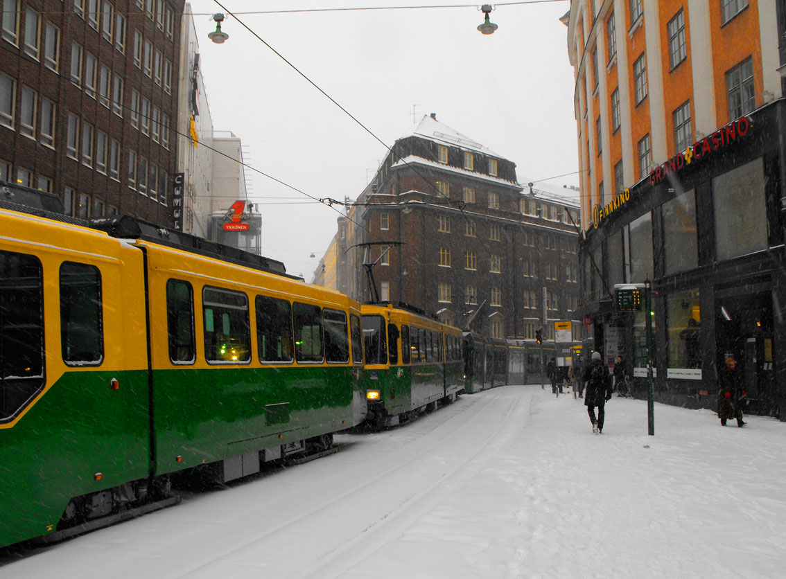 Trams in Helsinki. Jan. 2010